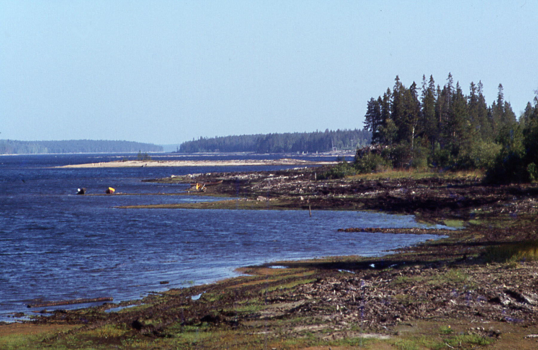 Bay of Pesiönlahti, Lake Kiantajärvi at Suomussalmi, Finland